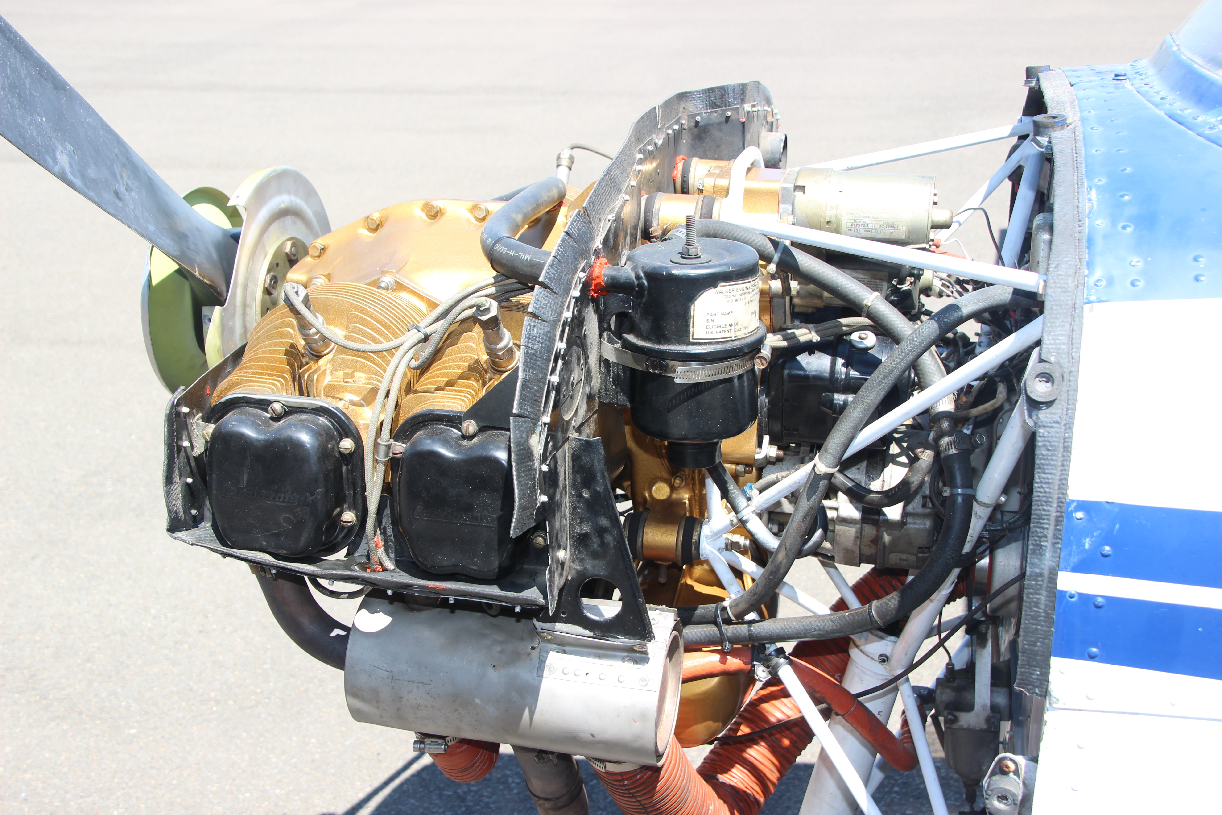 View of a Continental O-200-A horizontally-opposed four-cylinder engine installed in a Cessna 150H. Digital image taken by YSSYguy on 16 October 2015 and uploaded for use in the Continental O-200 article. YSSYguy (talk) 01:08, 18 November 2016 (UTC)